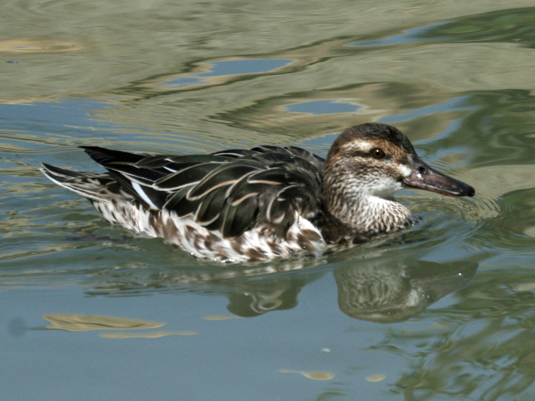 ♀ Garganey (Anas querquedula) at Sylvan Heights Waterfowl Park in Scotland Neck, North Carolina.